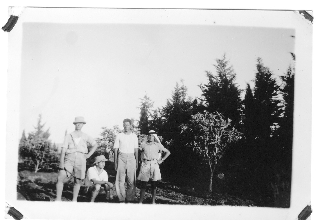 nahalal in the 30th, Geography of Israel